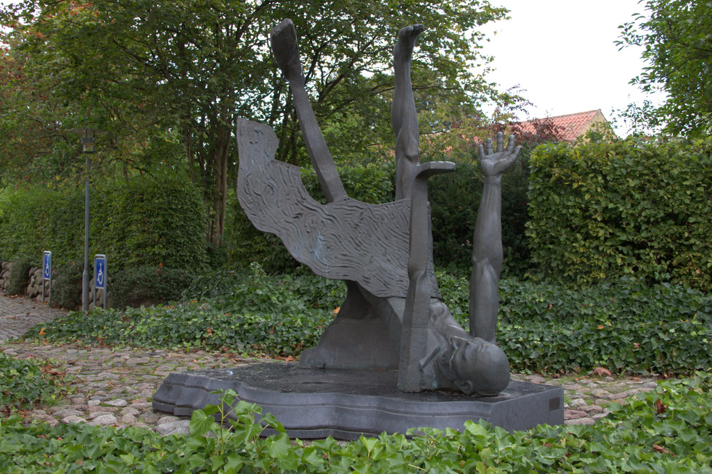 "Paulus" by Poul R. Weile, Peace Church, Odense, Denmark 1995, art in public space